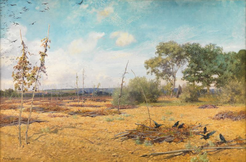 Maud Naftel painting 'When hops are housed and gardens bare' Horsmonden, 1888